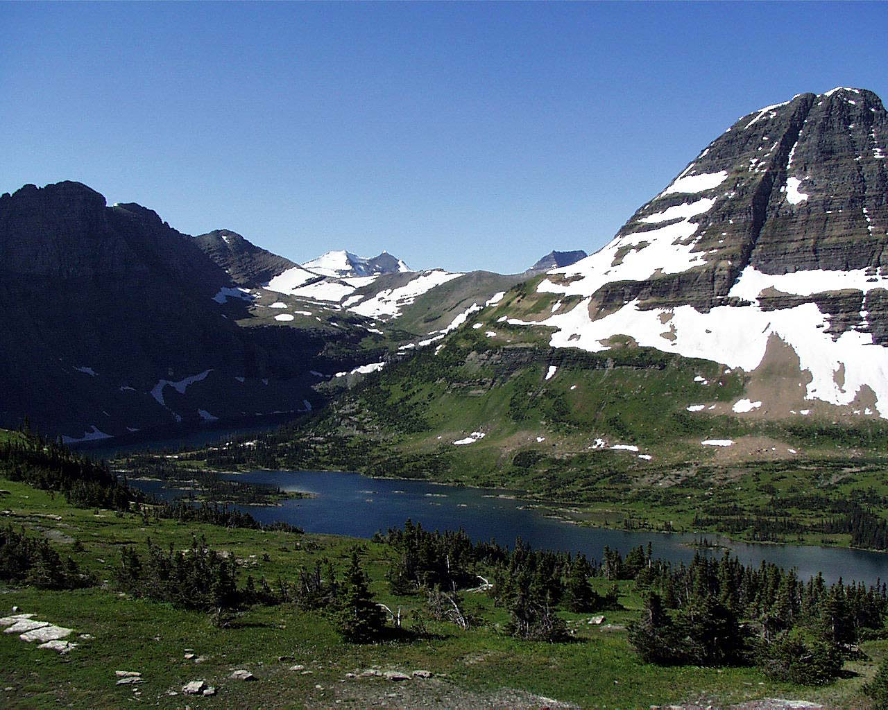 Glacier National Park, Montana, USA. View from Hidden Lake Overlook on the Going to the Sun Road. Original caption: The view from Hidden Lake Overlook provides a spectacular example of the power of Ice Age glaciers. This cirque (bowl shaped amphitheater) was carved out by huge glaciers tens of thousands of years ago. Just beyond the ridge in the background lies Sperry Glacier, one of the largest glaciers in the park today. It is tiny compared to the massive ice sheets that sculpted the parks topography.